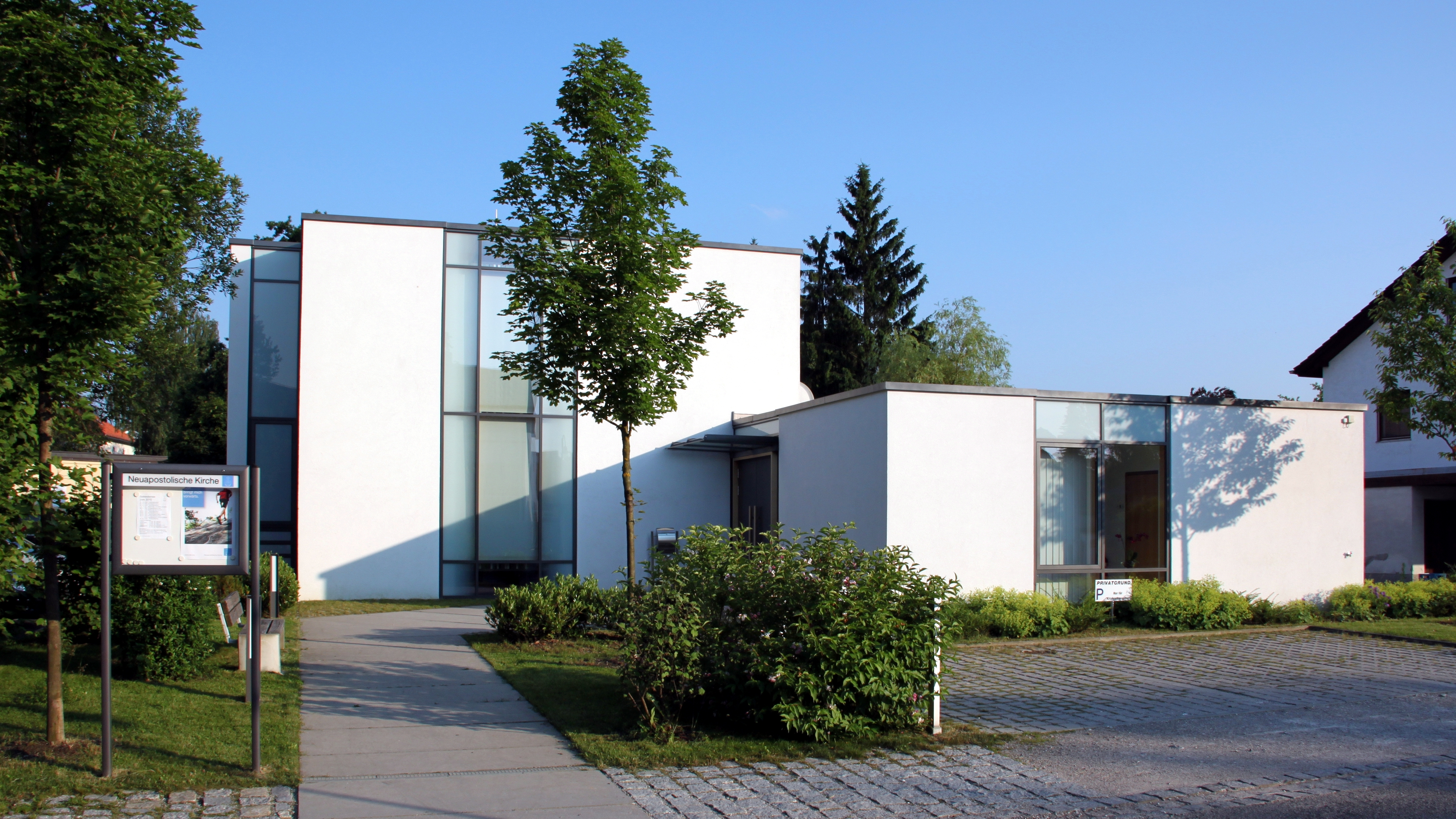 Ottobrunn: New Apostolic church (Eichendorffstr. 54), as seen from Eichendorffstraße